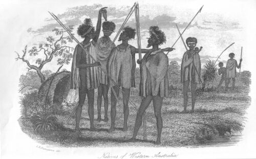 This is an illustration entitled "Natives of Western Australia" from Volume 1 of John Lort Stokes' 1846 book Discoveries in Australia.